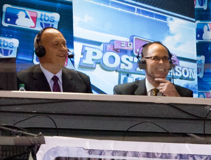 TBS broadcasters Cal Ripken, Jr. and Ernie Johnson, Jr. – New York Yankees at Baltimore Orioles. ALDS Game 1. October 7, 2012.